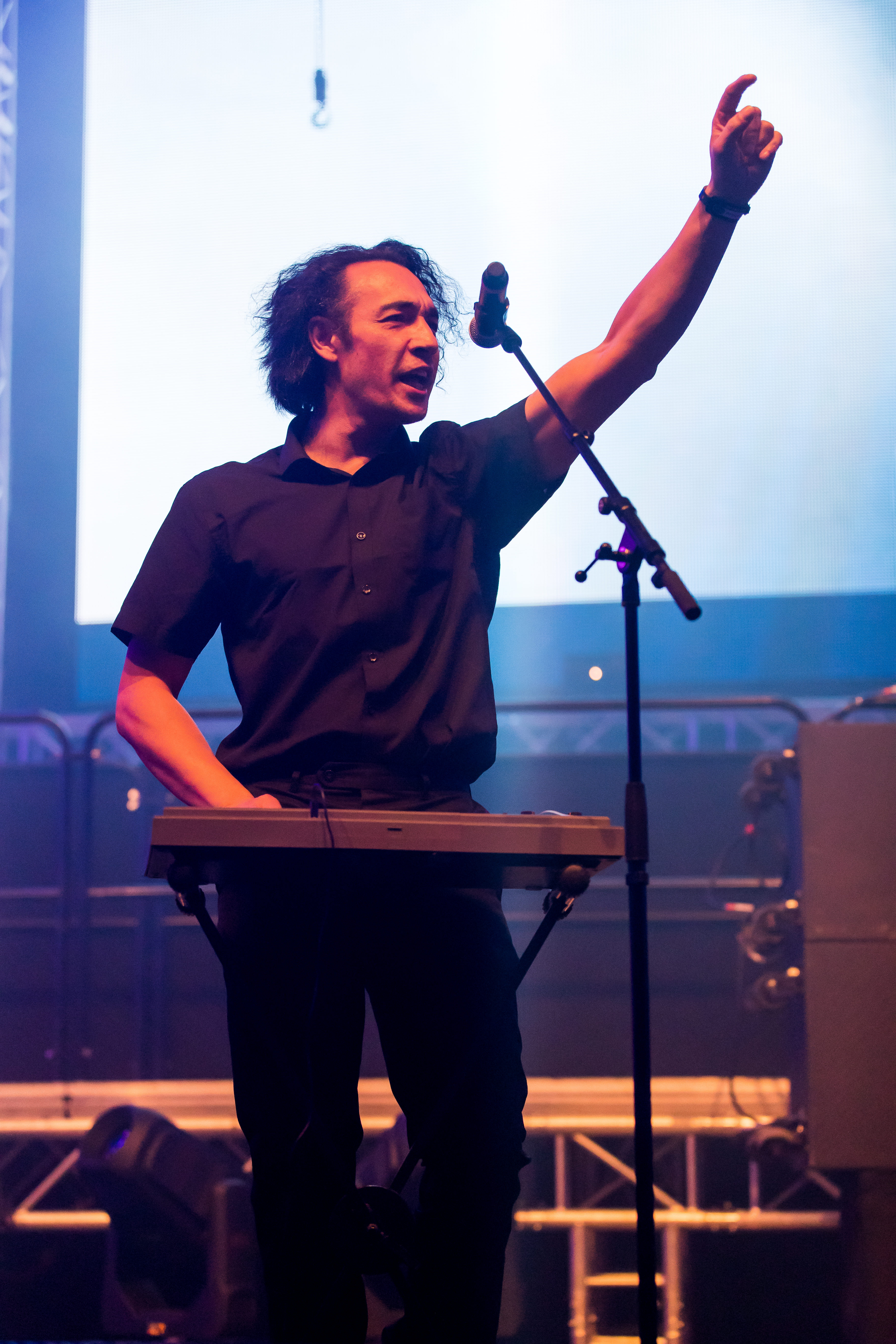 Interactive during Sunshine Live - 90er Live on Stage at Maimarkt Halle, Mannheim, Baden Württemberg, Germany on 2016-11-27, Photo: Sven Mandel DJ Falk, E-Rotic, Twenty 4 Seven, Rednex, Vengaboys, Masterbox feat. Beatrix Delgado, 2 Brother on the 4th Floor, 2 Unlimited, Interactive, Charly Lownoise, Marusha